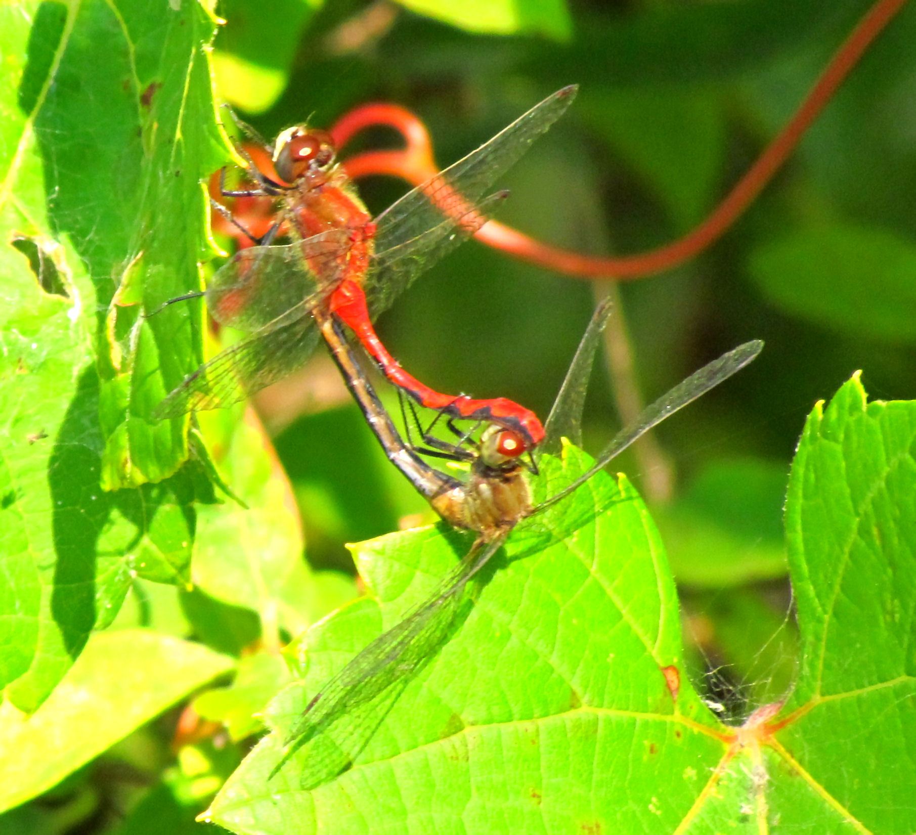 White-faced Meadowhawk (Sympetrum obtrusum), in wheel position, Shirleys Bay, Ottawa, Ontario, Canada